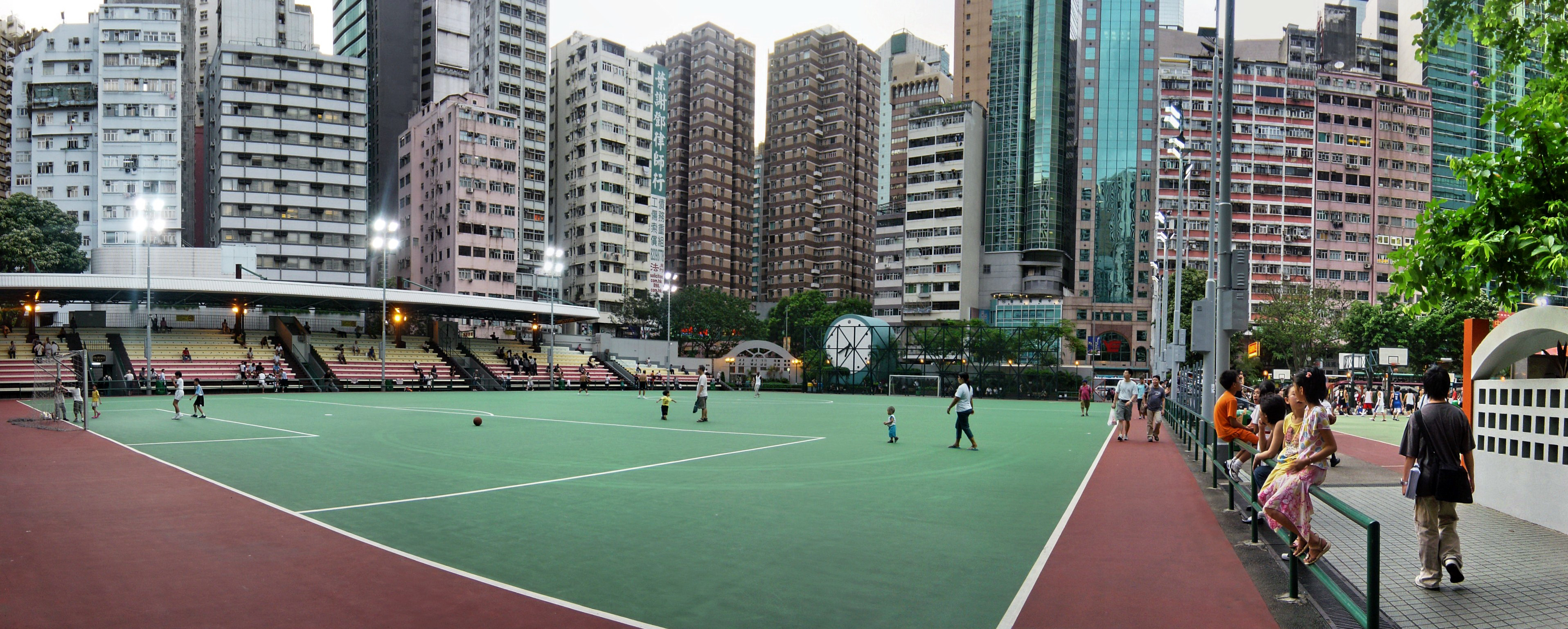 Southorn Playground in Wan Chai, Hong Kong.